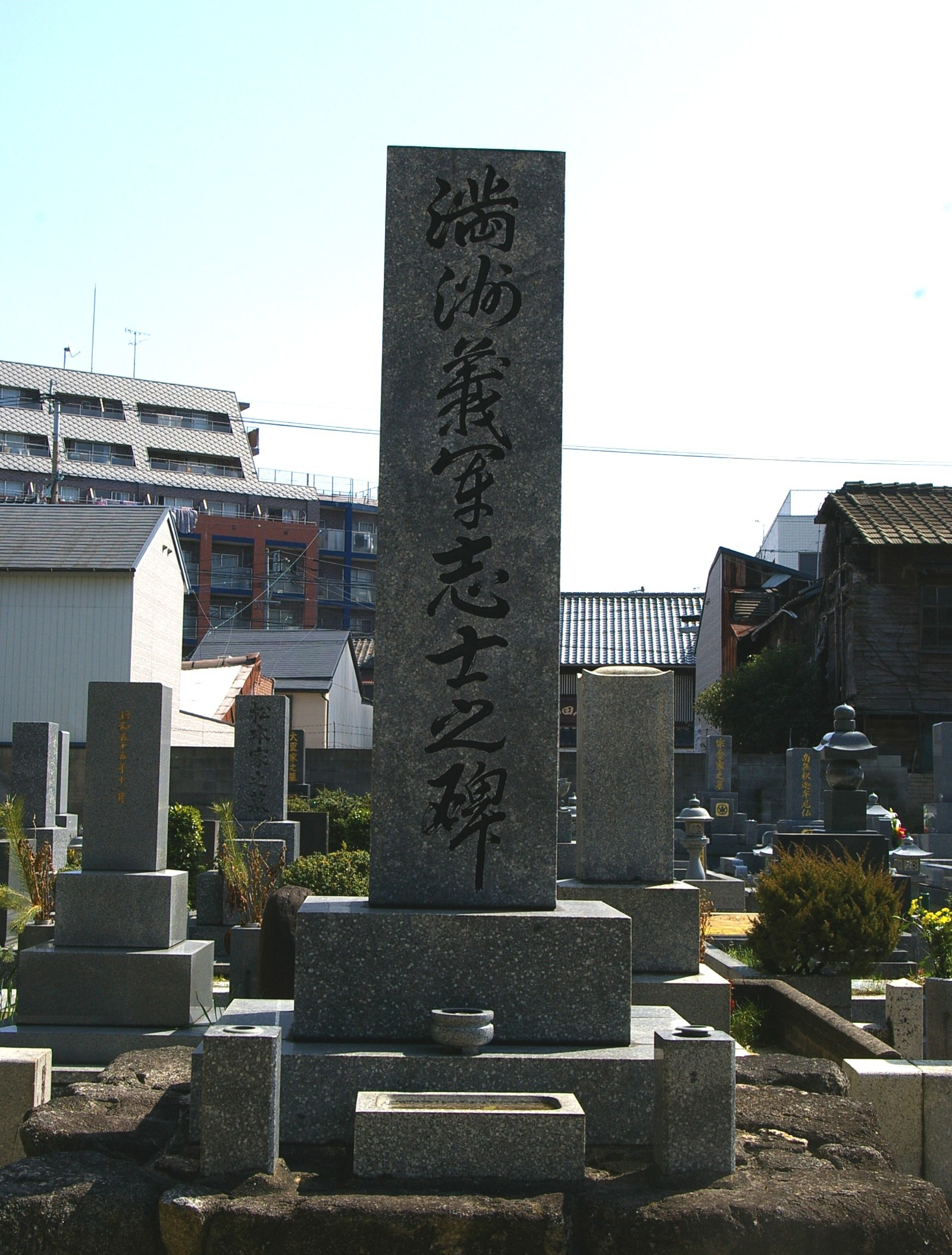 Fukuoka